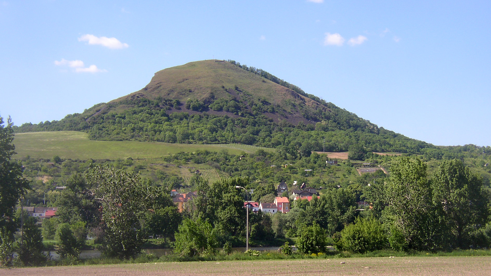 Radobýl hill near Litoměřice, Czech Republic, as seen from south, from Prosmyky - Mlékojedy road.